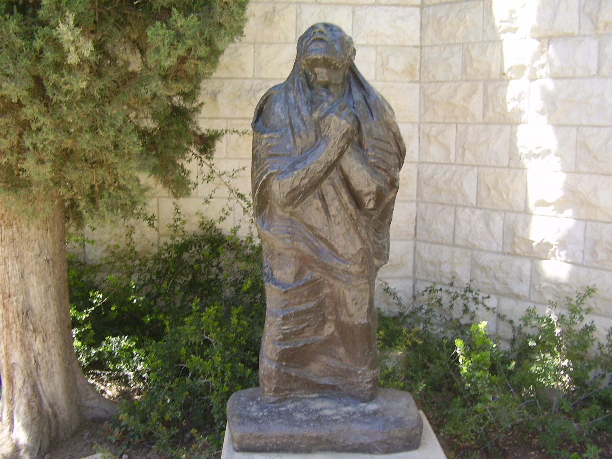 \"job\" at yad vashem